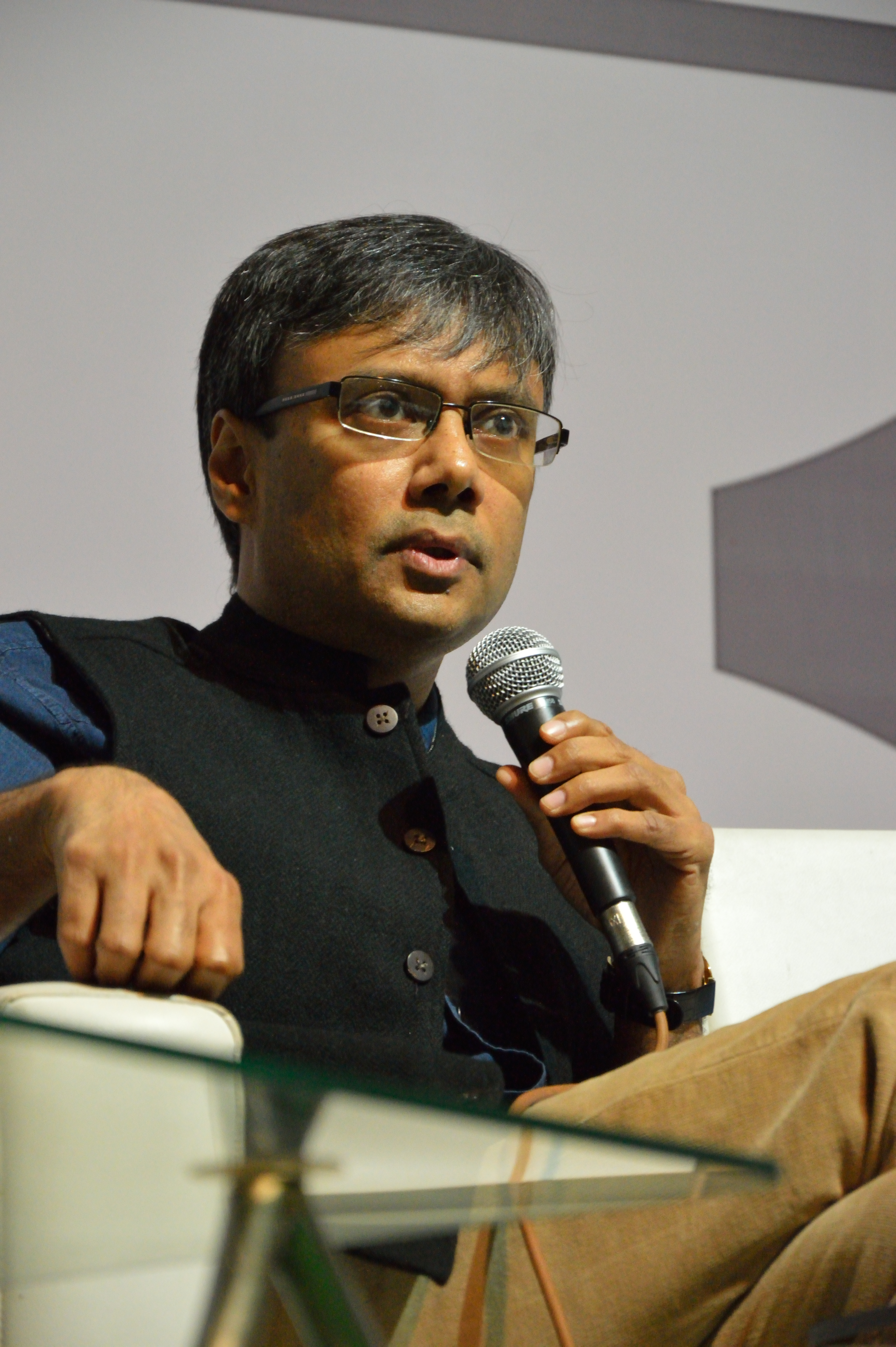 Amit Chaudhuri (born 1962 Calcutta) is an internationally recognized Indian English author and academic. Photographed durintg the 38th International Kolkata Book Fair at Milan Mela Complex , Kolkata.